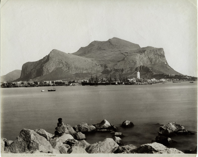 Giorgio Sommer (1834-1914), "Palermo. Mount Pellegrino". Catalogue number: 9000.